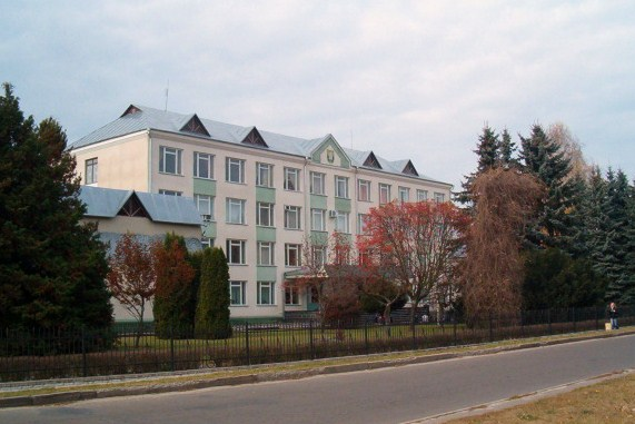 The Berezne Forestry College, main building